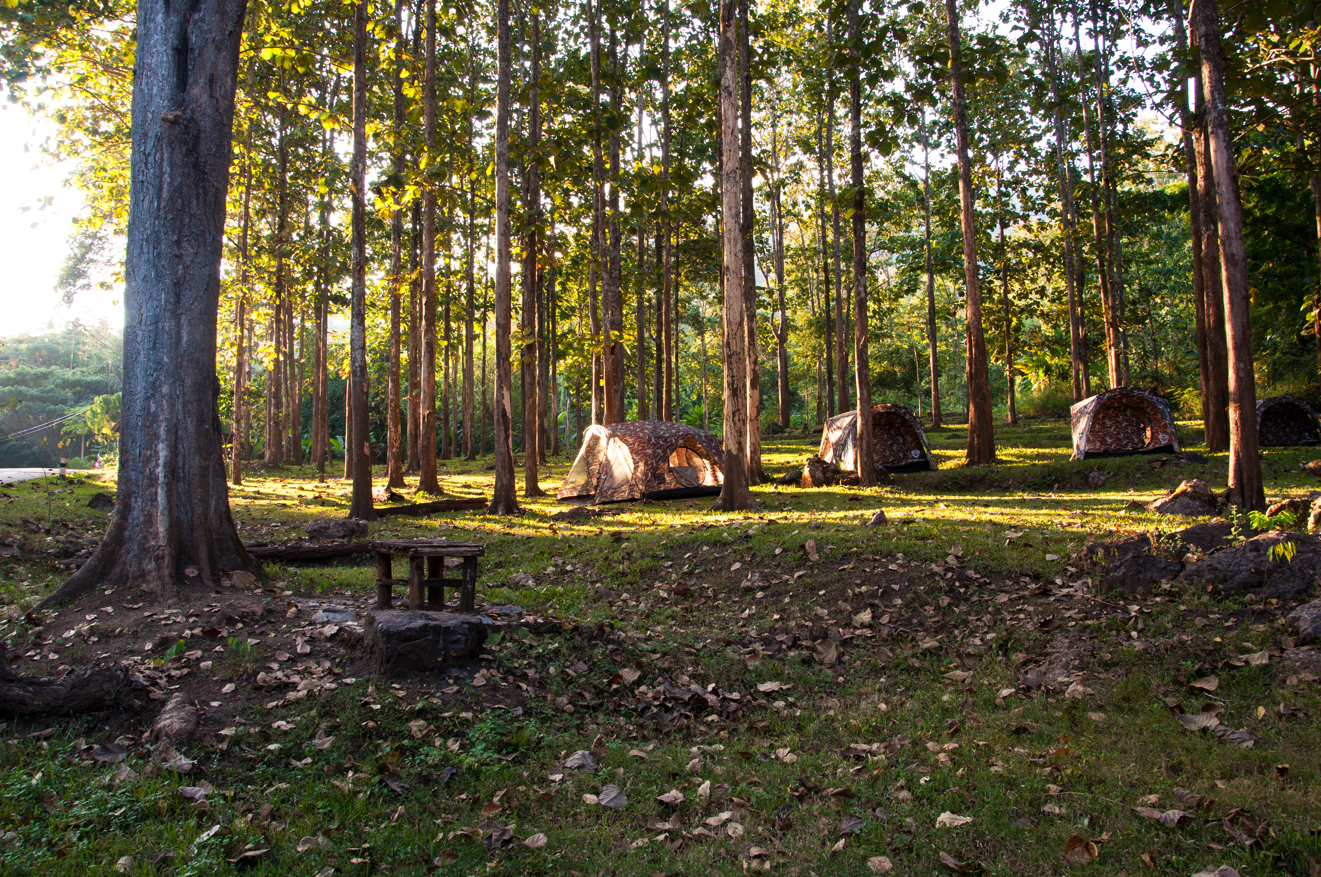 Chae Son National Park, Lampang, Thailand